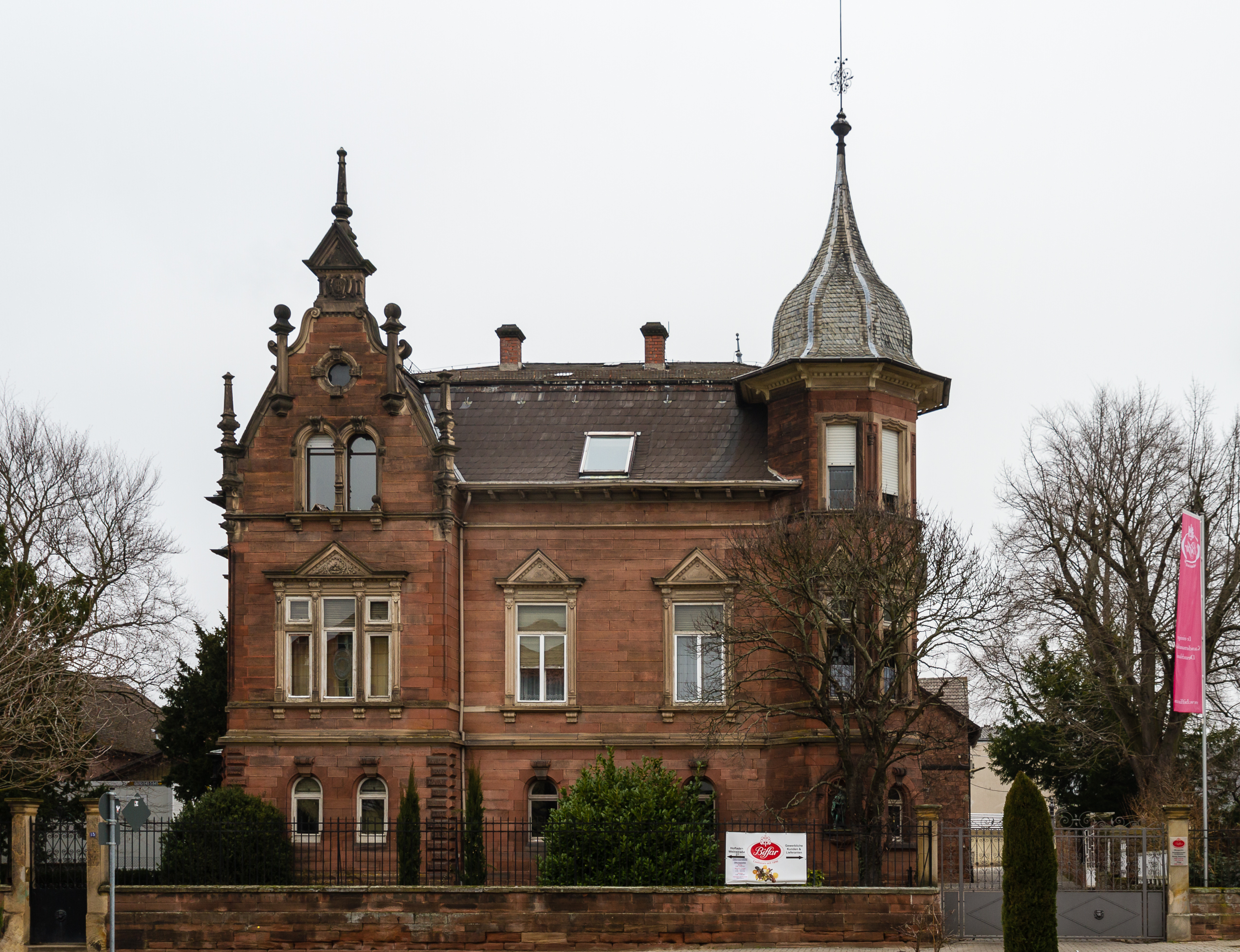 Designation: Winery Location: Niederkircher Straße House number: 15 Place: Deidesheim, District Bad Dürkheim, Rhineland-Palatinate Construction time: second half of the 19th century Description: Representative neo Renaissance villa with mansard roof, 1899, architect Wilhelm Schulte I., Neustadt.